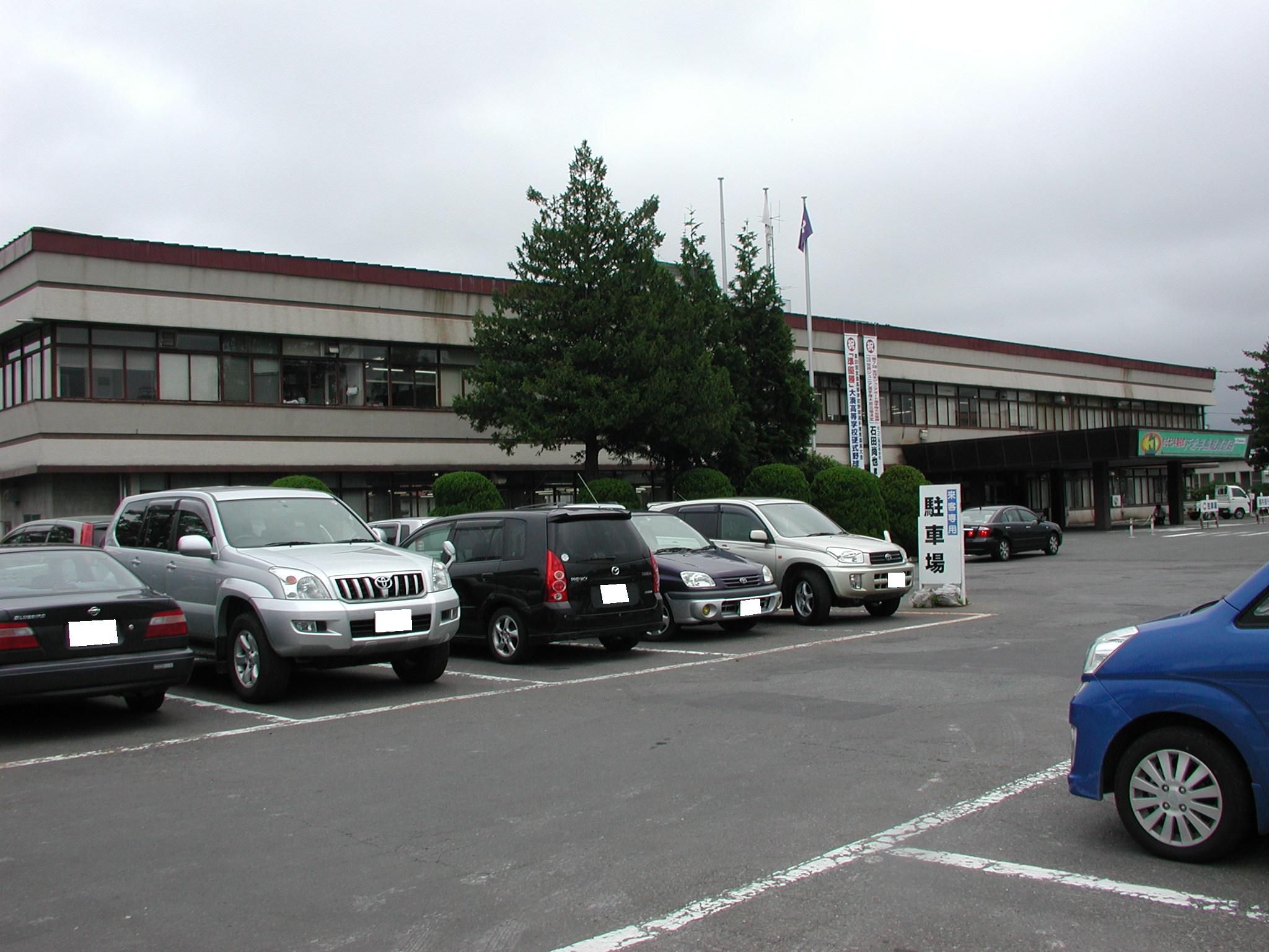 Mutsu City Office on Old